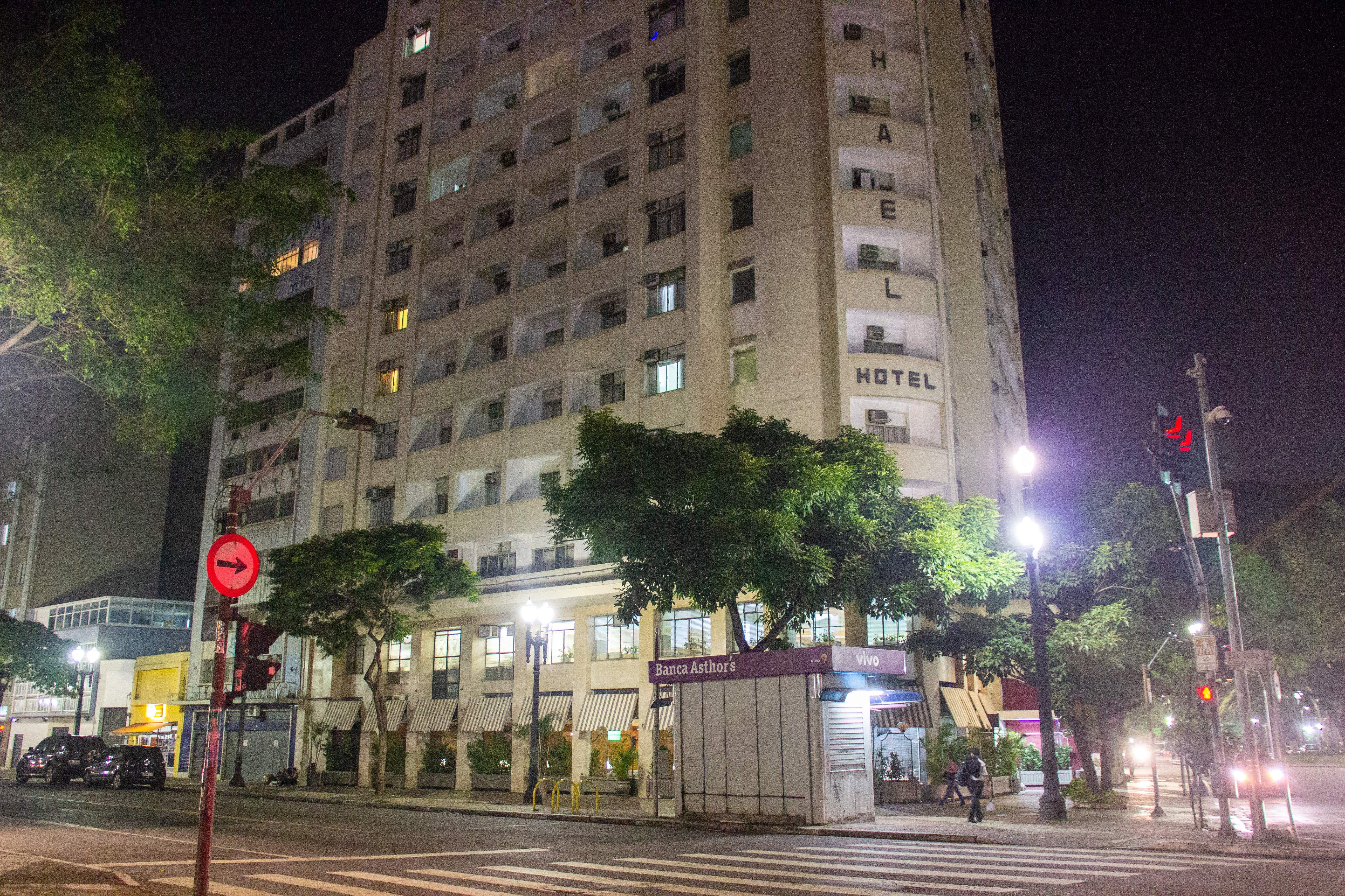 Caminhada Noturna, 26 April 2018, São Paulo, Brazil